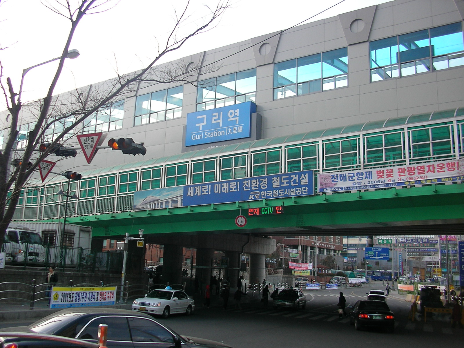 Content Guri Station in Seoul Subway Jungang Line. Photoed by Integral(∫) on March 12th, 2006.